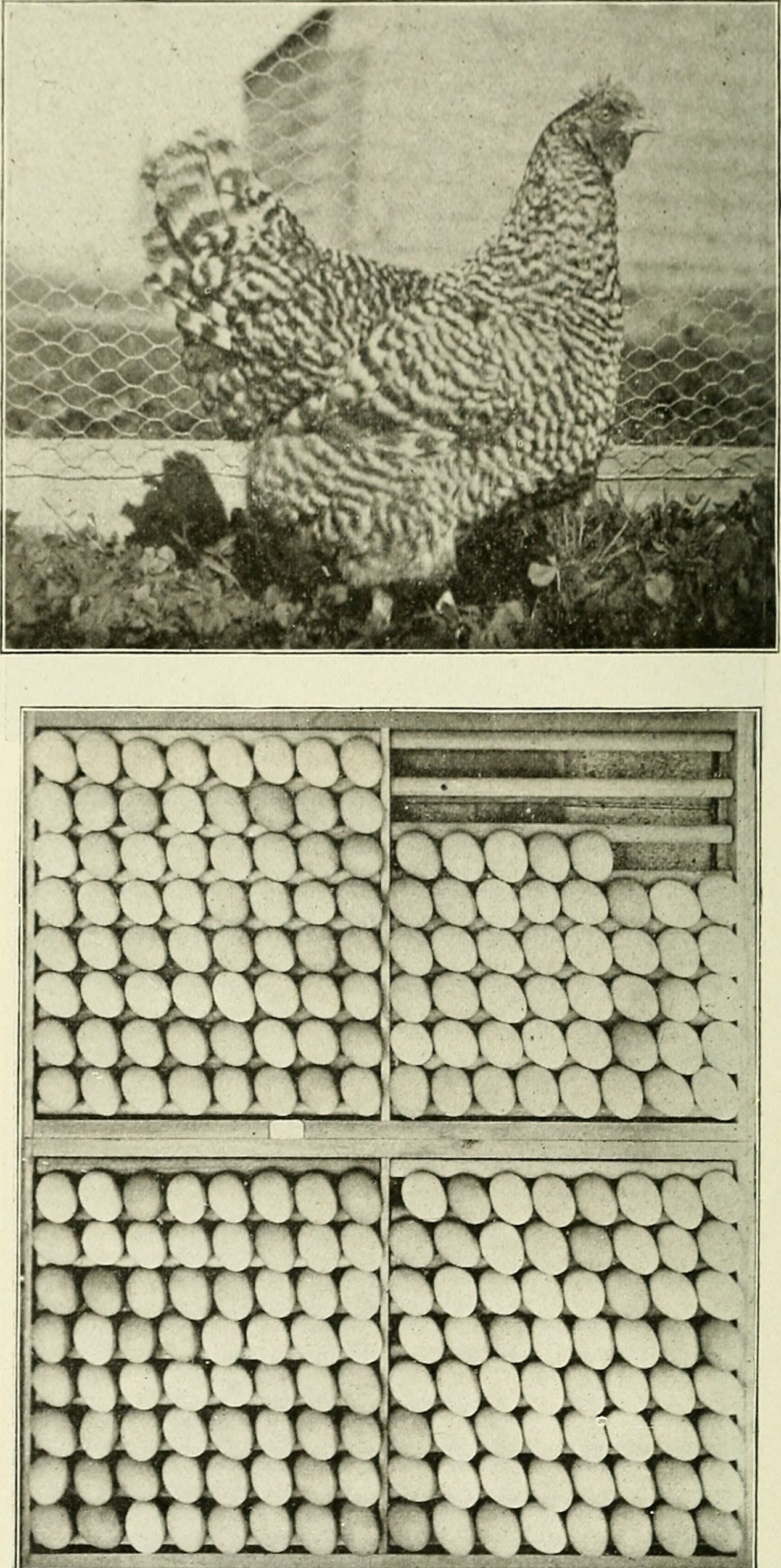 Title: Annual report of the Maine Agricultural Experiment Station Identifier: annualreportofma1903main Year: 1885-1953. (1880s) Authors: Maine Agricultural Experiment Station Subjects: Agriculture; Agriculture Publisher: [Orono, Me. : Maine State College] Text Appearing Before Image: 90 MAINE AGRICULTITRAL ItXPKKI M KXT STATION. I9O3. Text Appearing After Image: Figs. 24 and 25, Barred Plymouth Rock hen, No. 31S. Laid 237 eggs in first year